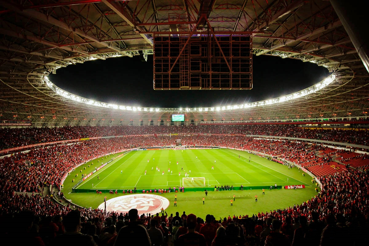 Beira-Rio Stadium - Porto Alegre, Brazil